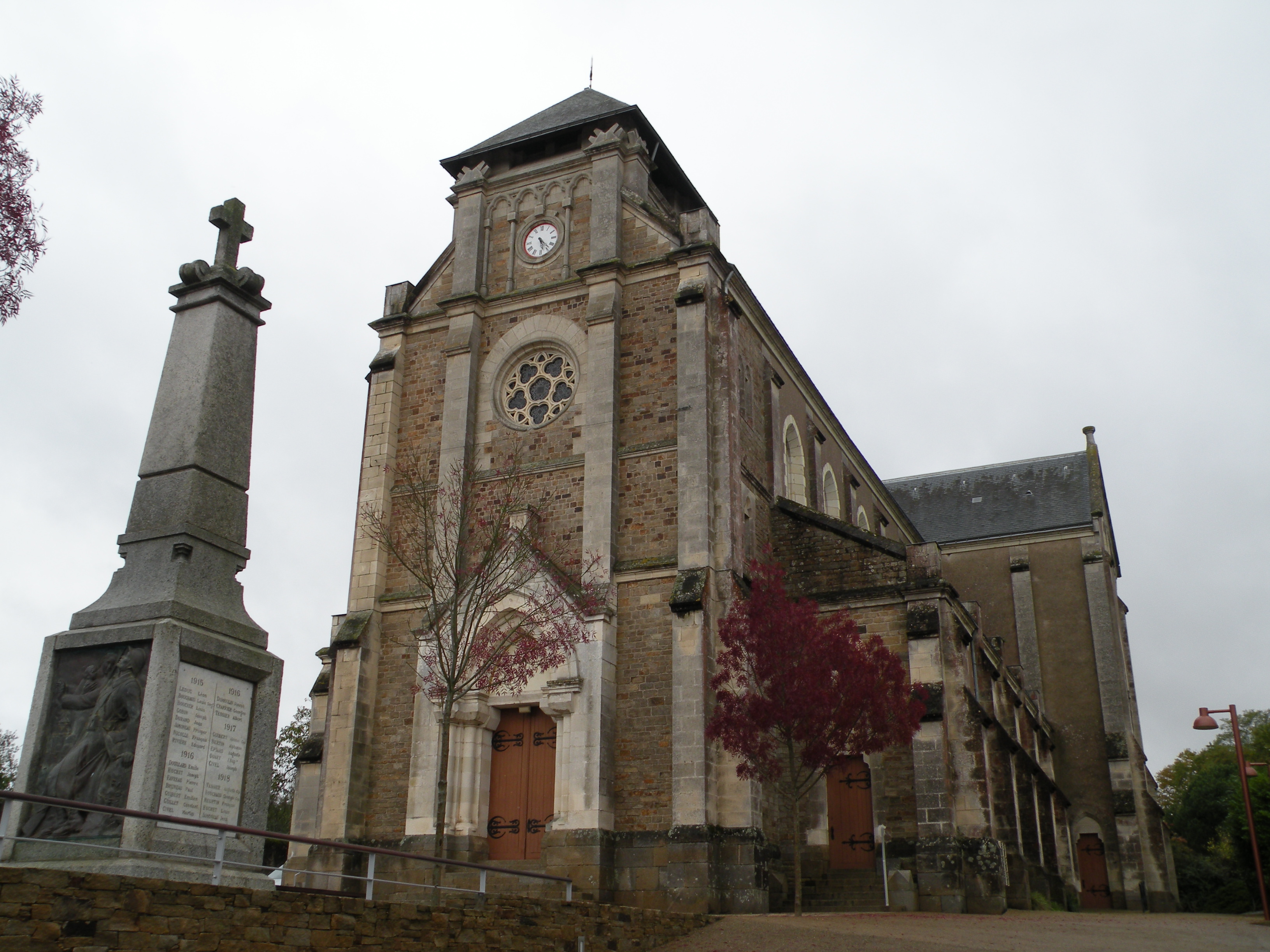 Church of Montbert.